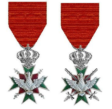 Order of the White Falcon Saxe-Weimar-Eisenach IInd. Class